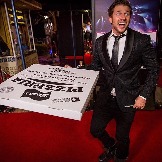 Anywhere Justin Mayo goes he seems to entertain, even on the Red Carpet of premieres and other places he frequents.